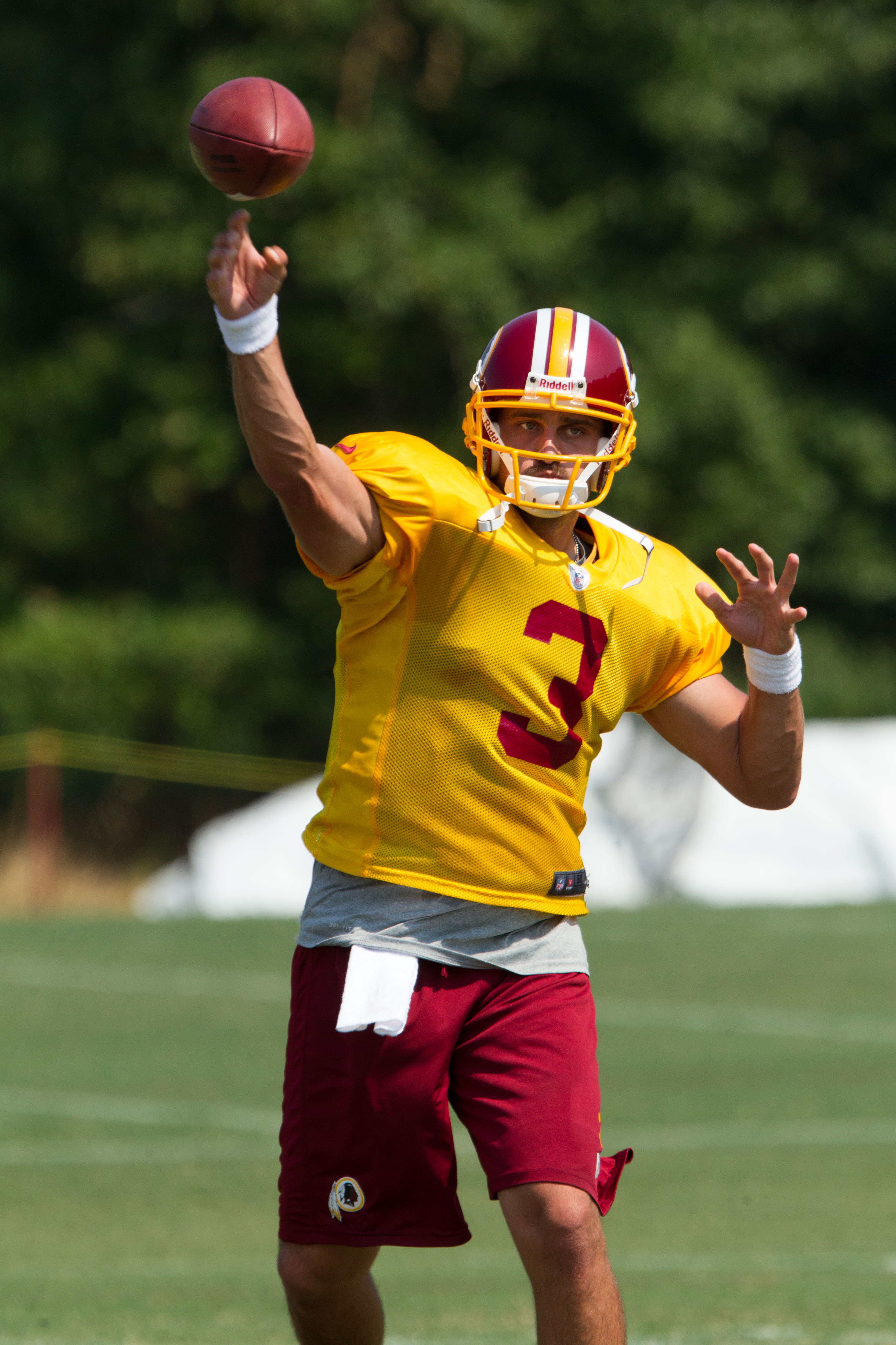 Jonathan Crompton at Washington Redskins Training Camp August 1, 2012